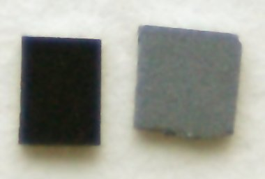 GaAs crystals (2 mm in size), mirror polished and rough sides